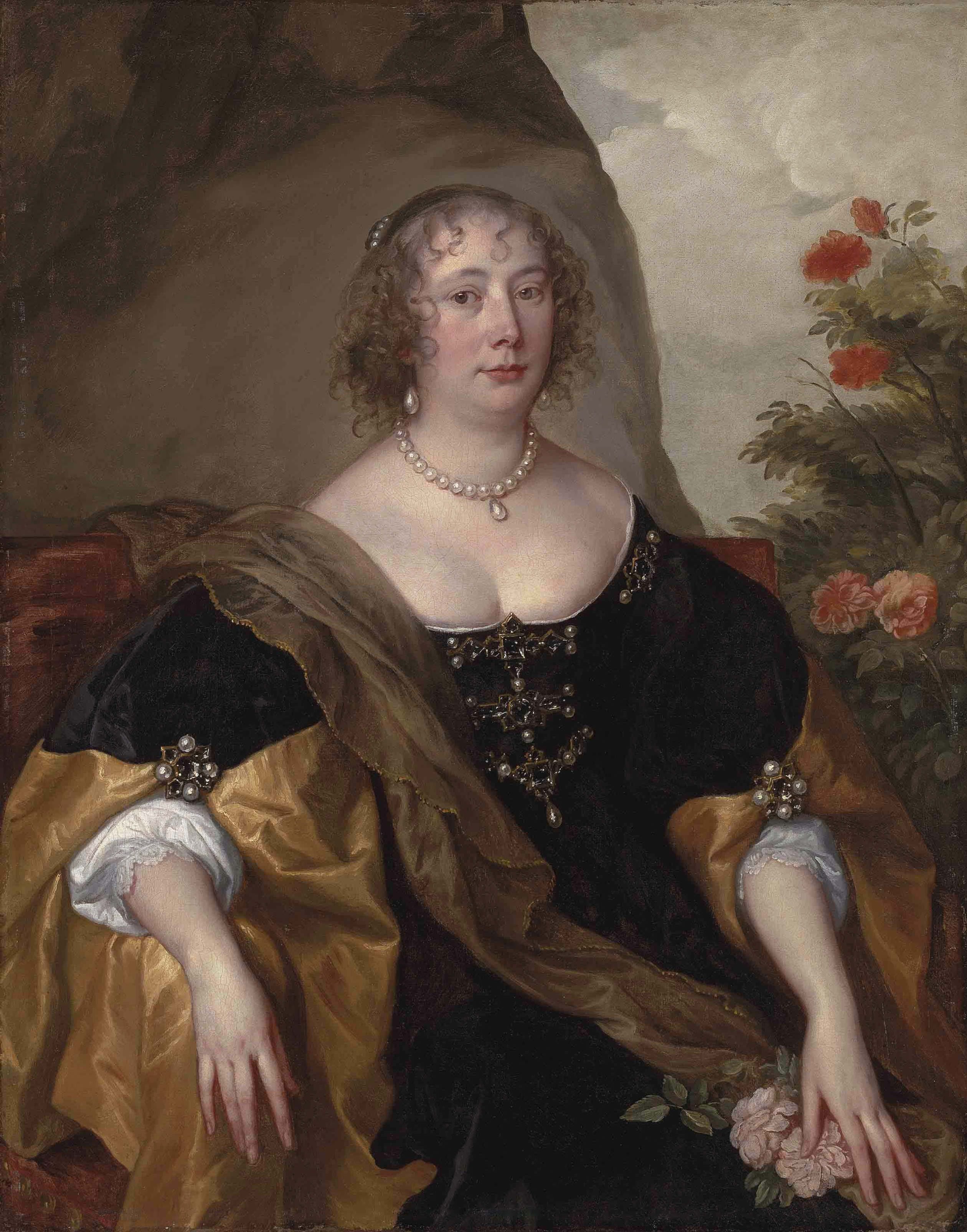 Beatrice, Countess of Oxford, wife of Robert de Vere, 19th Earl of Oxford and daughter of Sierck van Hemmema of an ancient family from Berlikum in Friesland